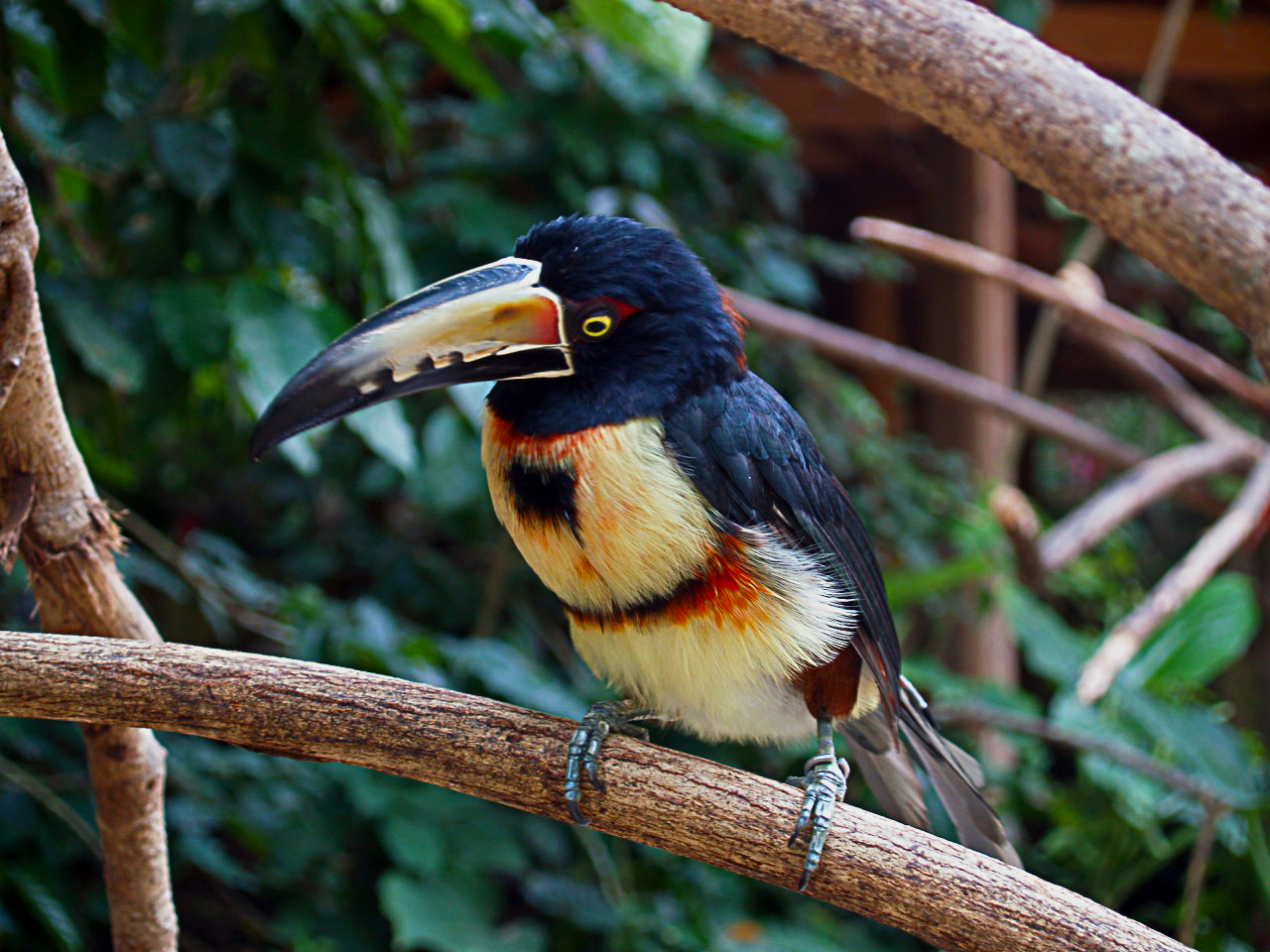 A Collared Aracari at Macaw Mountain Bird Park, Honduras.